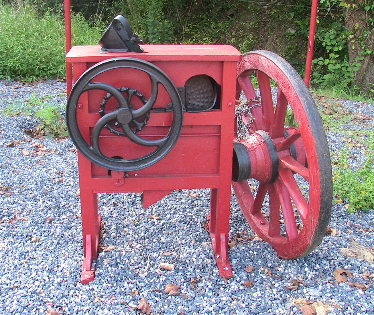 Maize sheller, Aquitaine.